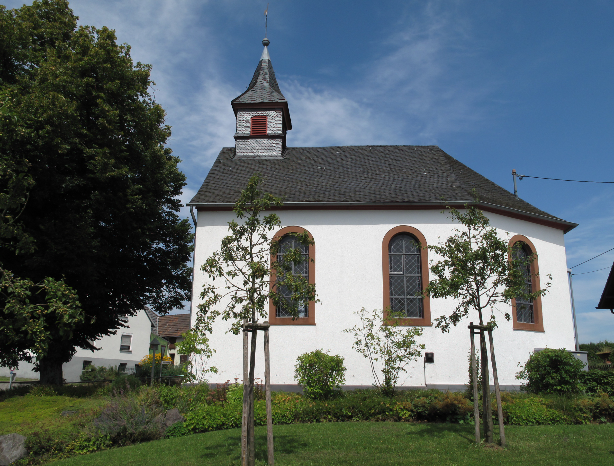 Gelenberg, church